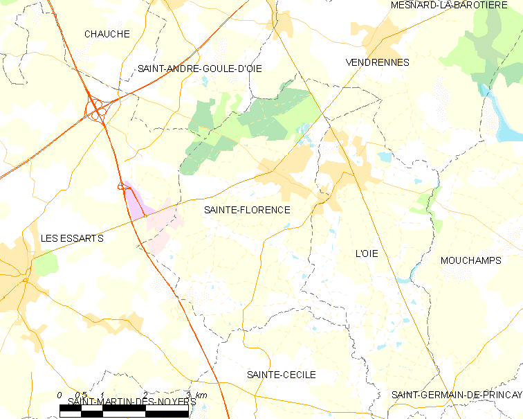 Map of French municipality Sainte-Florence